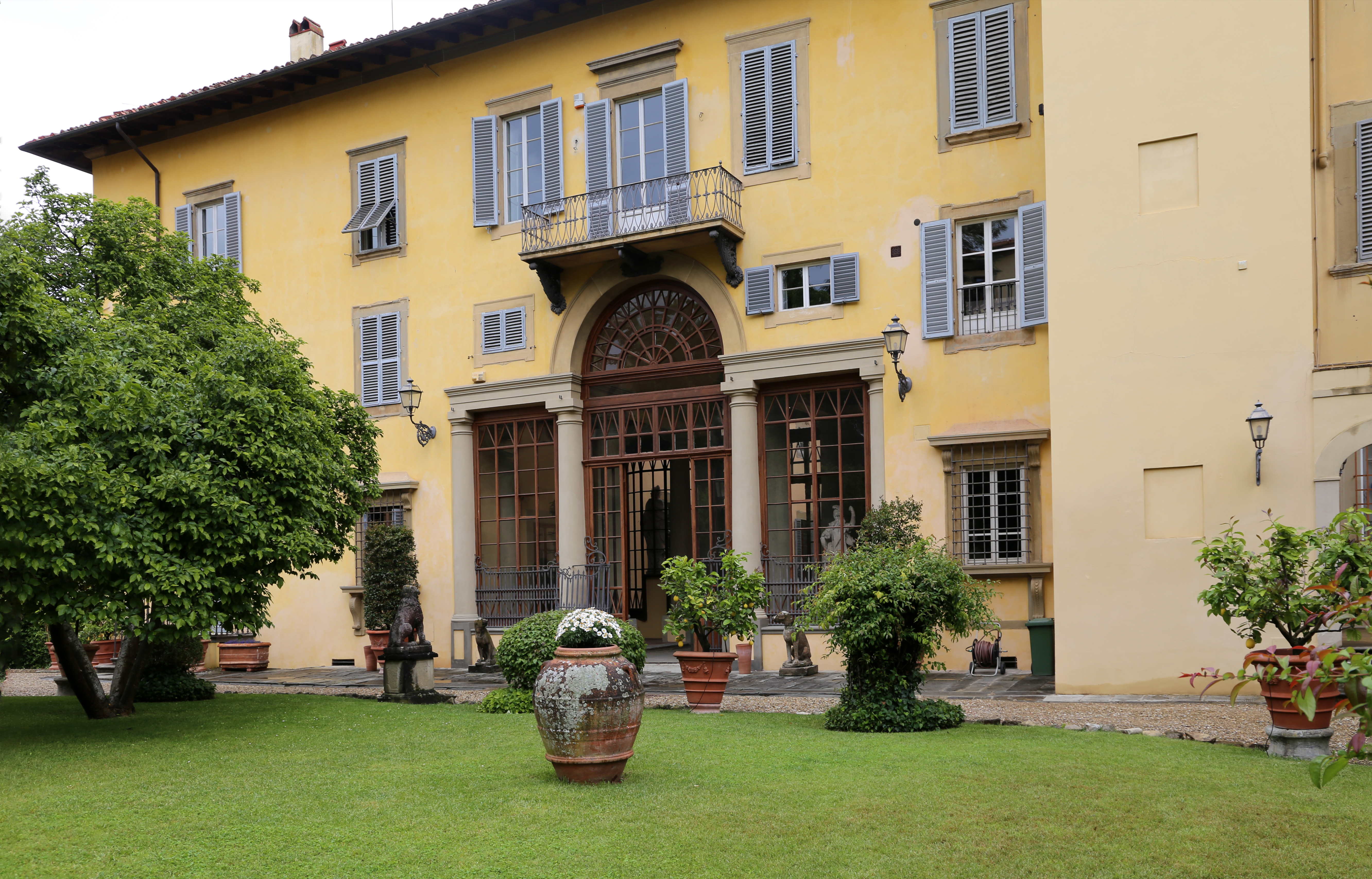 Palazzo Panciatichi Ximenes da Sangallo